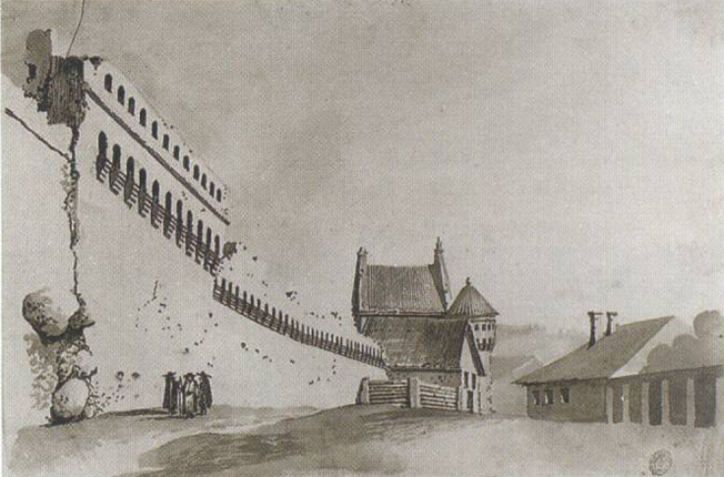 Defensive wall near Subačius gate, Vilnius, Lithuania